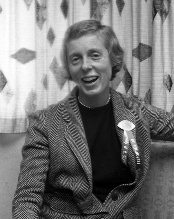 Actress Nancy Kulp in Tallahassee wearing button supporting FSU football.